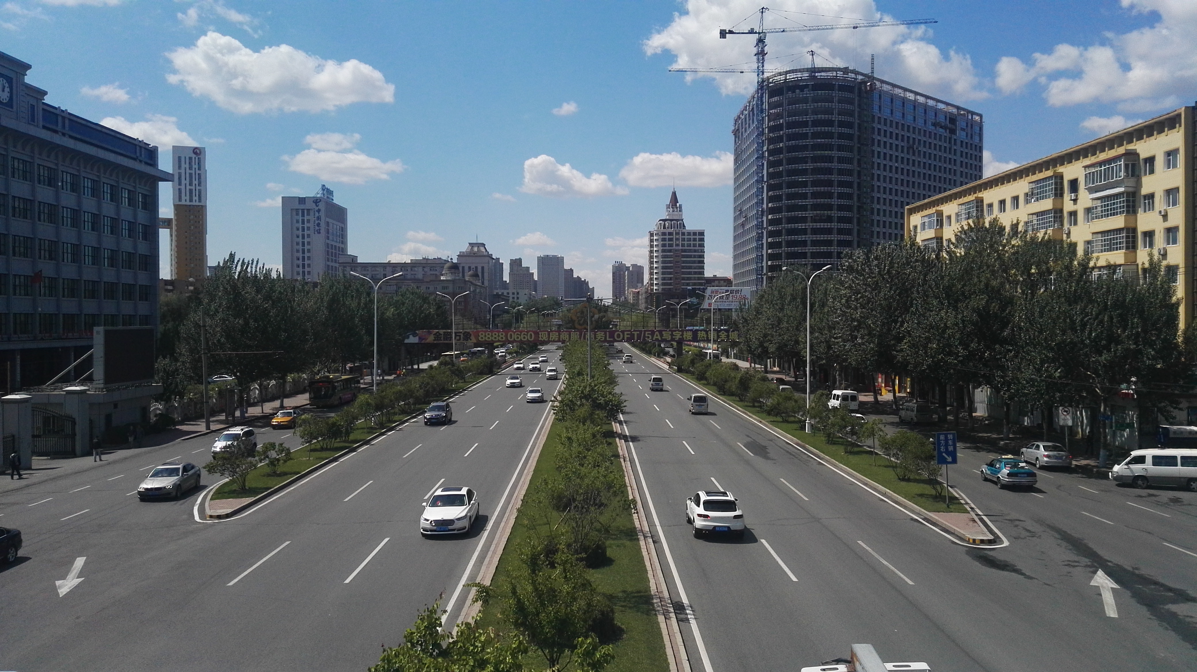 Hexing Road, part of south-west 2nd ring road in Harbin, Heilongjiang, China.